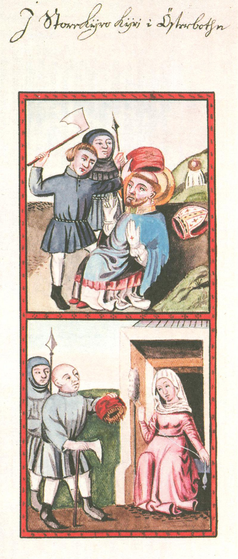 Elias Brenner copied these 15th century images in the church of Isokyrö in 1671. They describe the story of bishop Henrik according to the popular dirge, not according to the legend. Above, Lalli kills the bishop with his axe, below is described how his hair and scalp come loose after he has defiantly put the bishop's cap on his head.